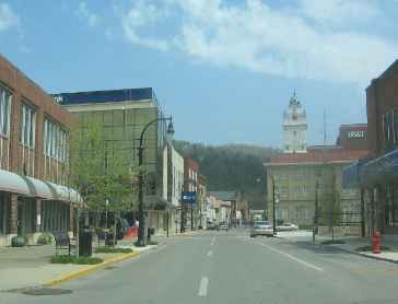 Downtown Pikeville